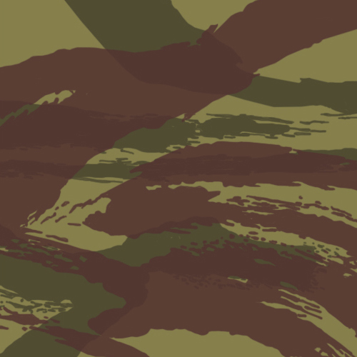 Roughly 30 x 30 cm of French lizard pattern. Redrawn from photo of actual specimen